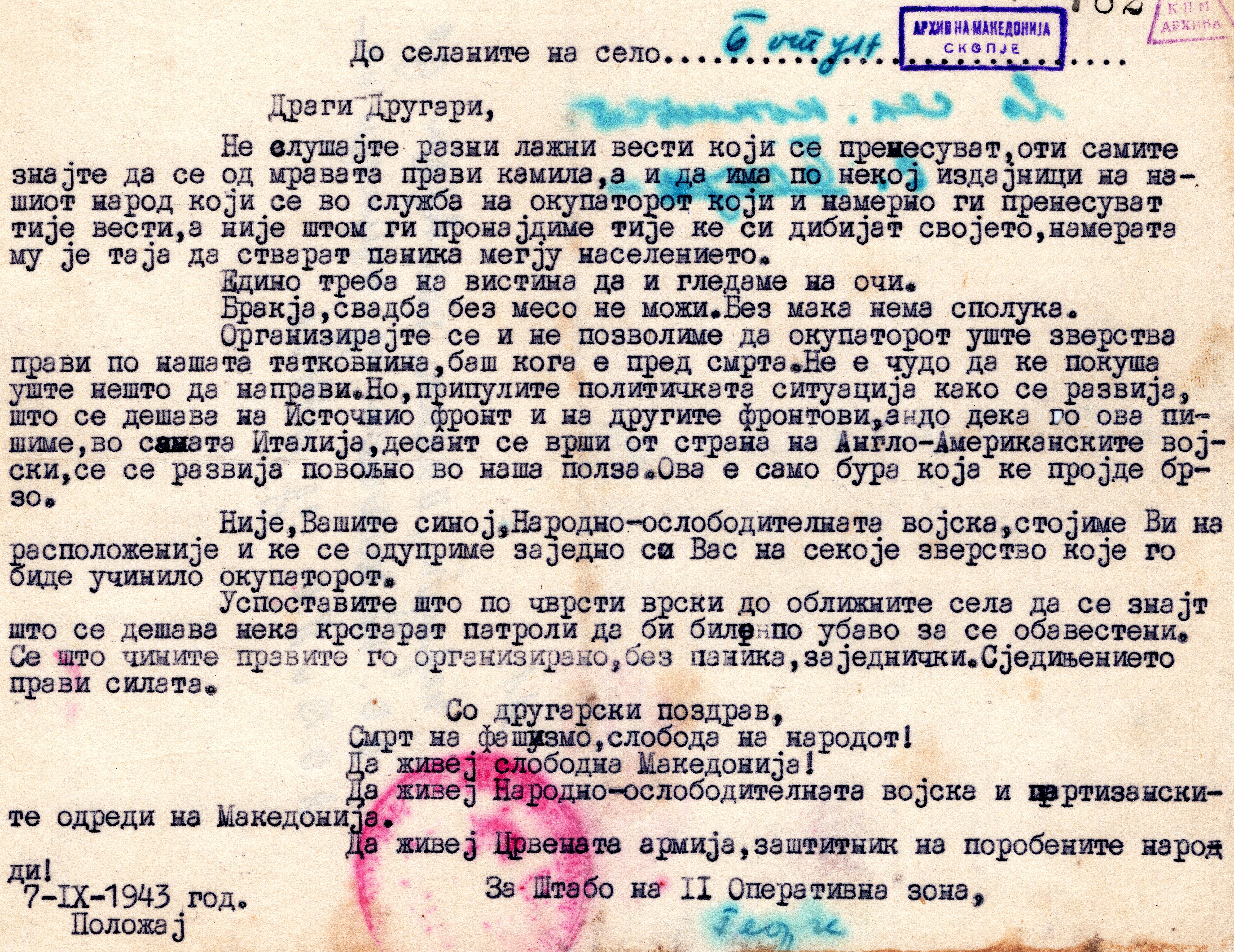 A call from the HQ of the Second operation zone for the people of Botun to collaborate with the partisans (7 September 1943). This media file is produced by Wikipedian in Residence in Category:Wikipedian in Residence at DARM in 2017.